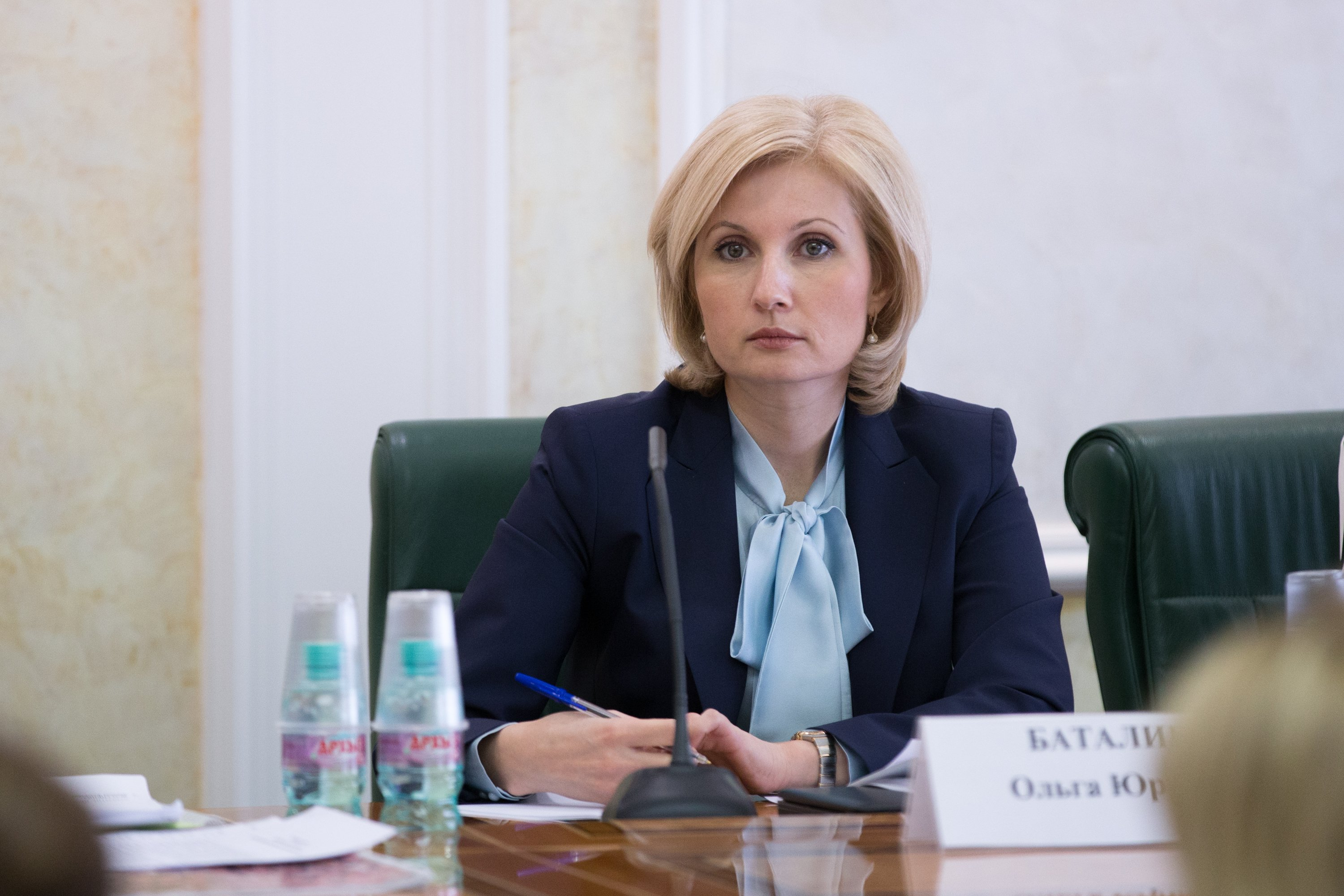 Chairman of the State Duma Committee for Labour, Social Policy and Veterans' Affairs Olga Batalina during the parliamentary hearings "Improvement of family legislation: opportunities and prospects of preserving the traditions of Russian family culture" at the Federation Council.